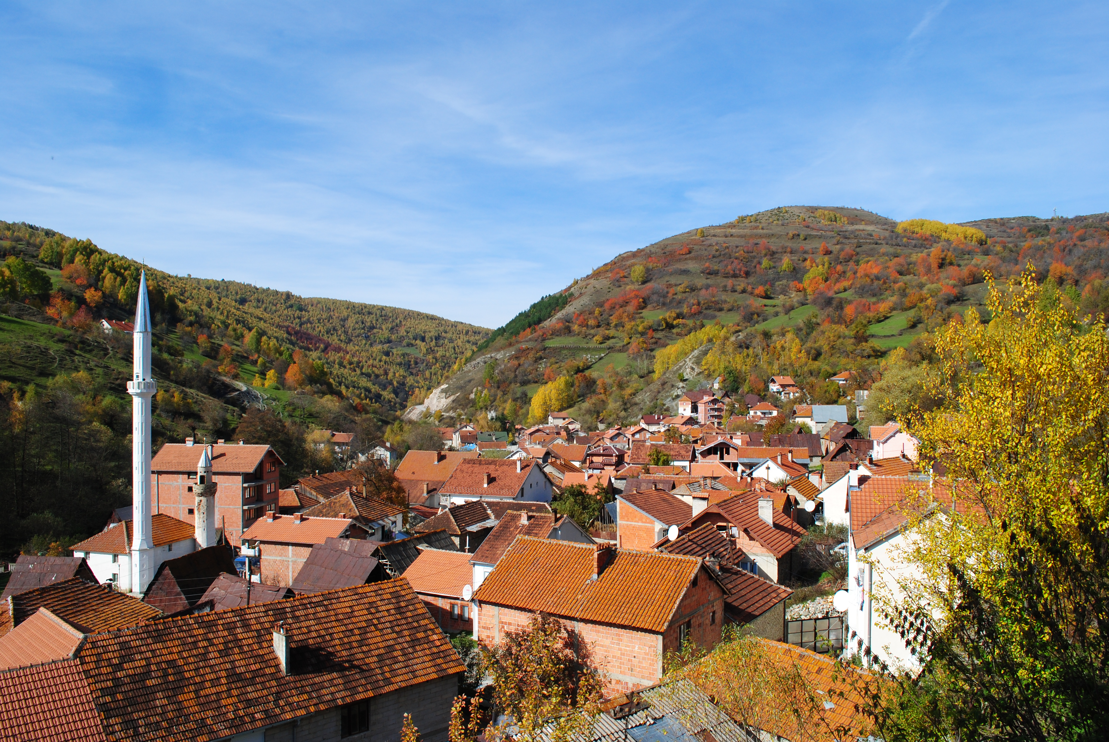 Selo Kruševo, fshati Krushevë, village Krushevo